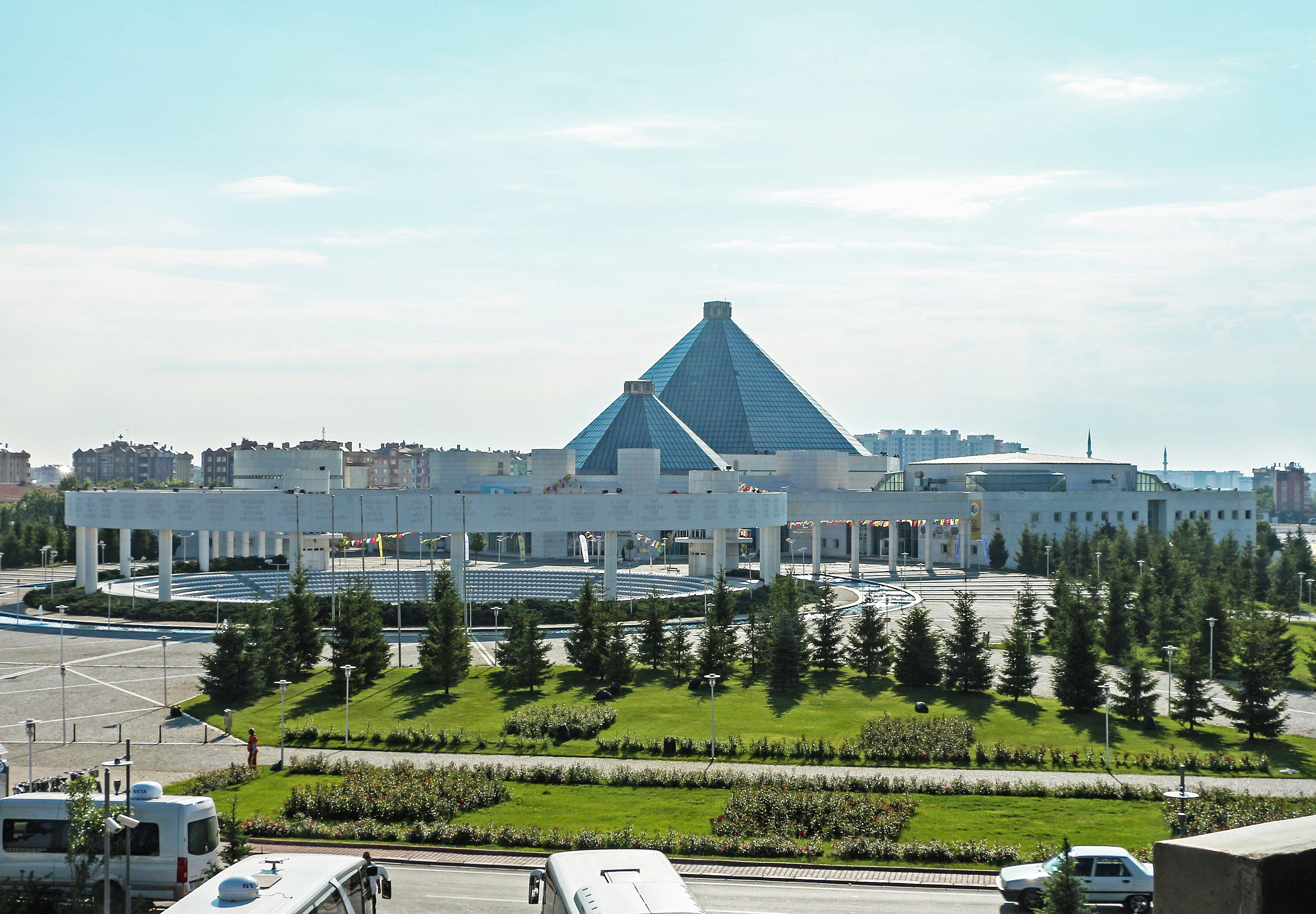 Mevlana Cultural Center, Konya, Turkey